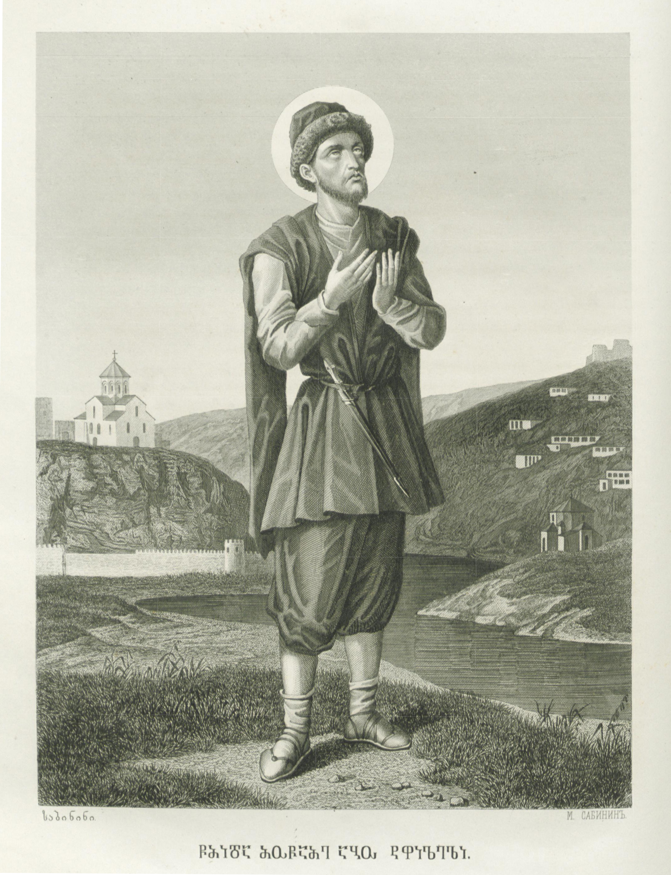 St. Abo of Tiflis